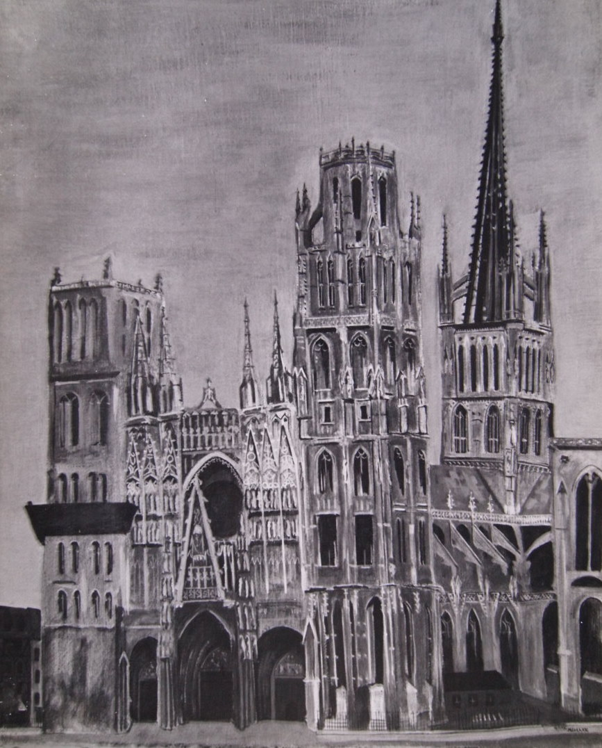 Painting on Canvas